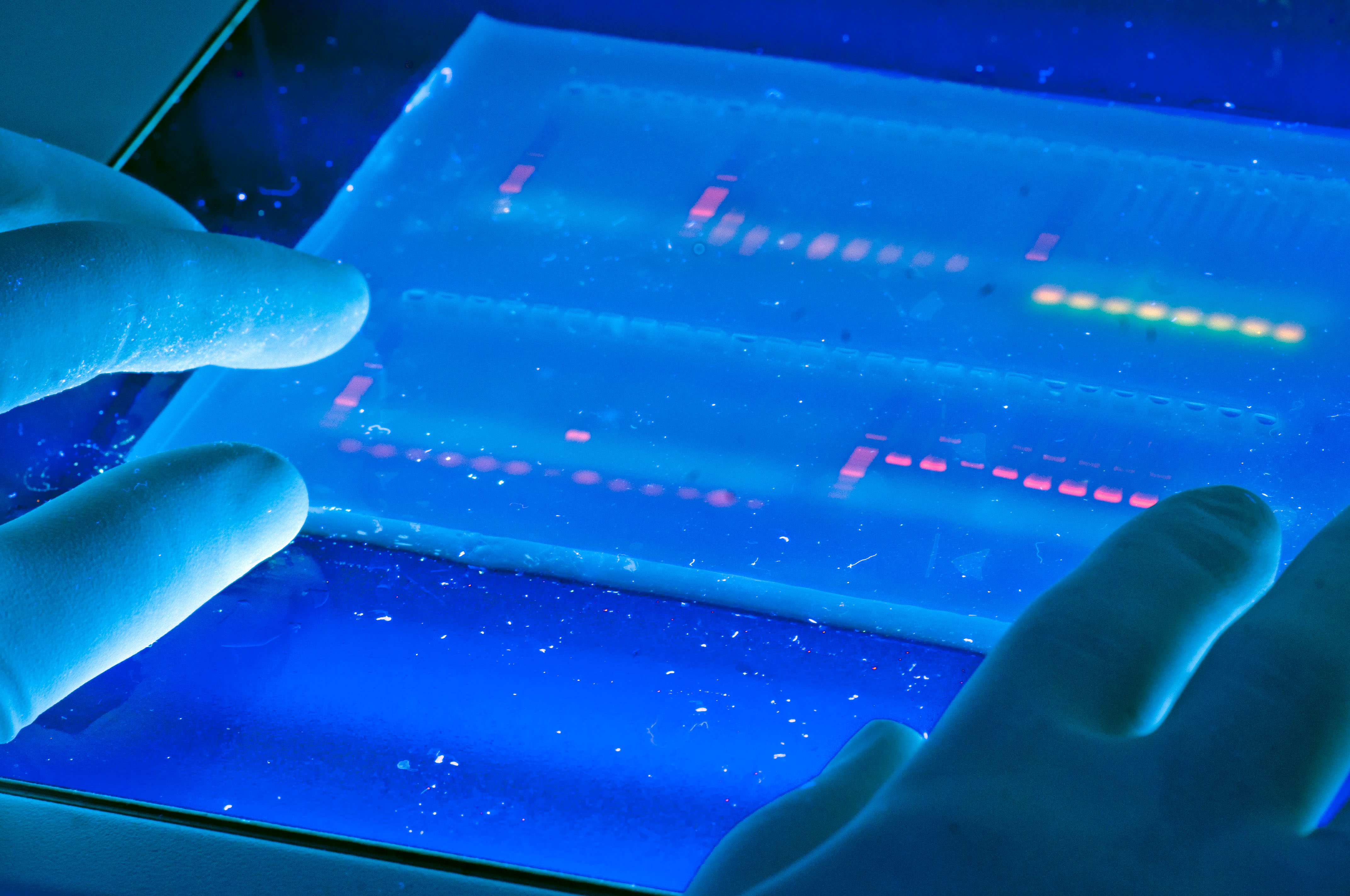 Agarose gel with UV illumination - Ethidium bromide stained DNA glows orange (close-up)